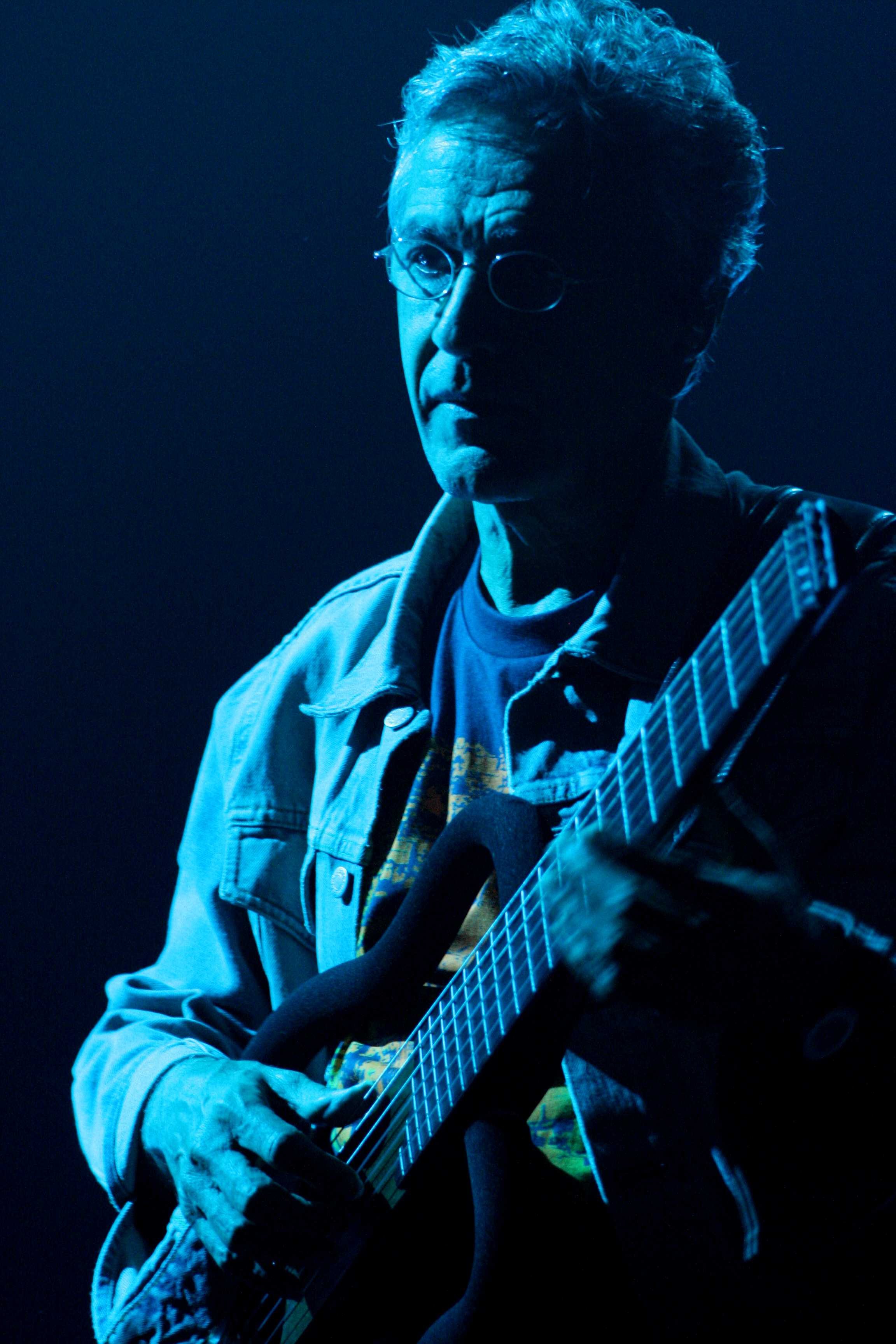 Brazilian musician Caetano Veloso at the TIM festival.